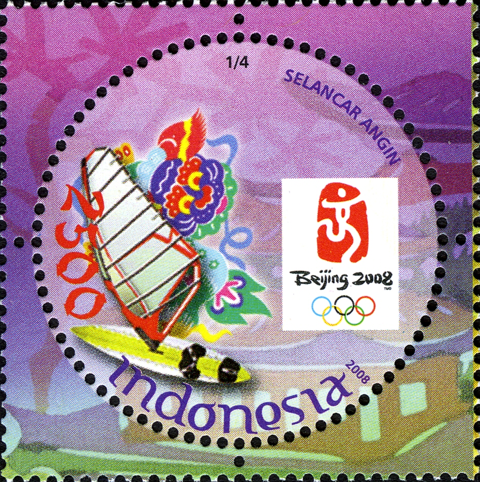 Stamps of Indonesia